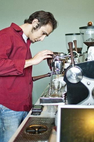 Baristo at work in a North American Coffeehouse